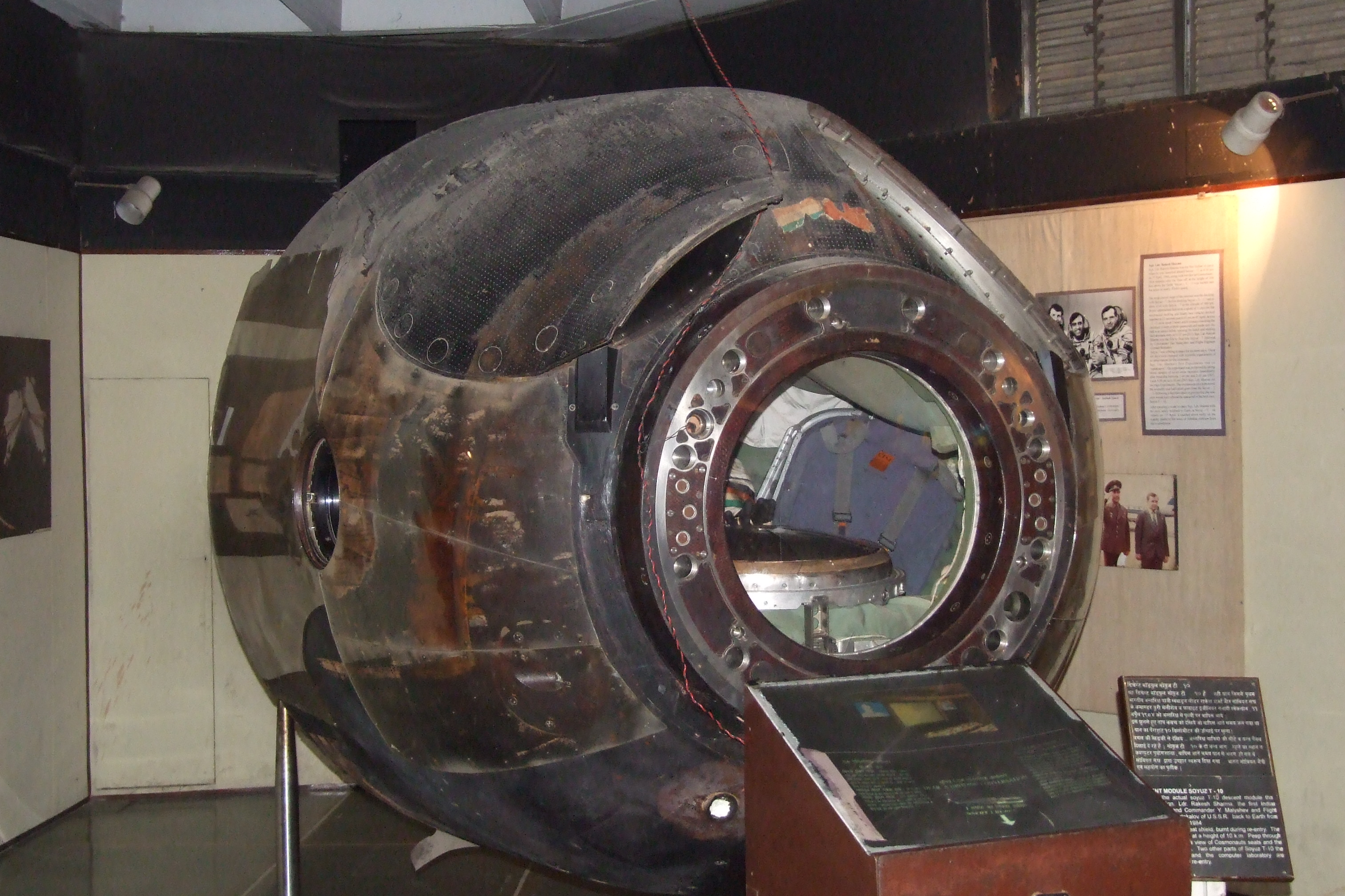 Soyuz T-10 at the Nehru Planetarium, New Delhi, India.